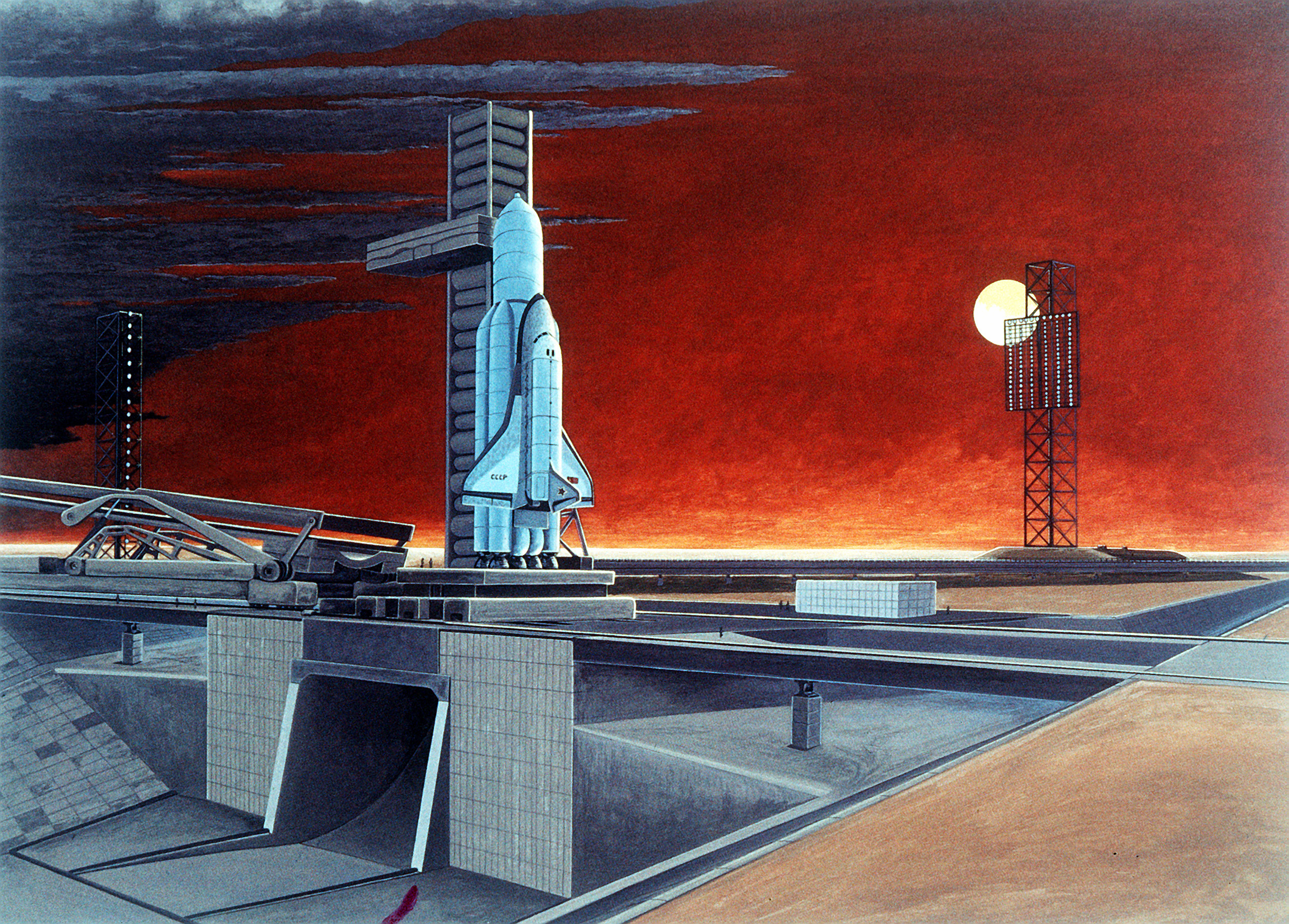 An artist's concept of a Soviet space shuttle and heavy-lift launch vehicle. (Soviet Military Power, 1986)